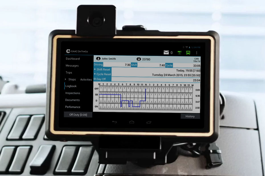 Photo of an Electronic driver log (ELD), also known as an Electronic On-Board Recorder (EOBR). ISAAC InControl is developped by ISAAC Instruments inc.